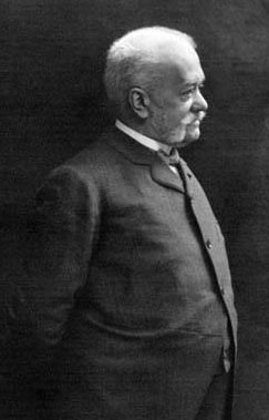 Albert Vizentini (1841–1906), French violinist, conductor, composer, and theatre director